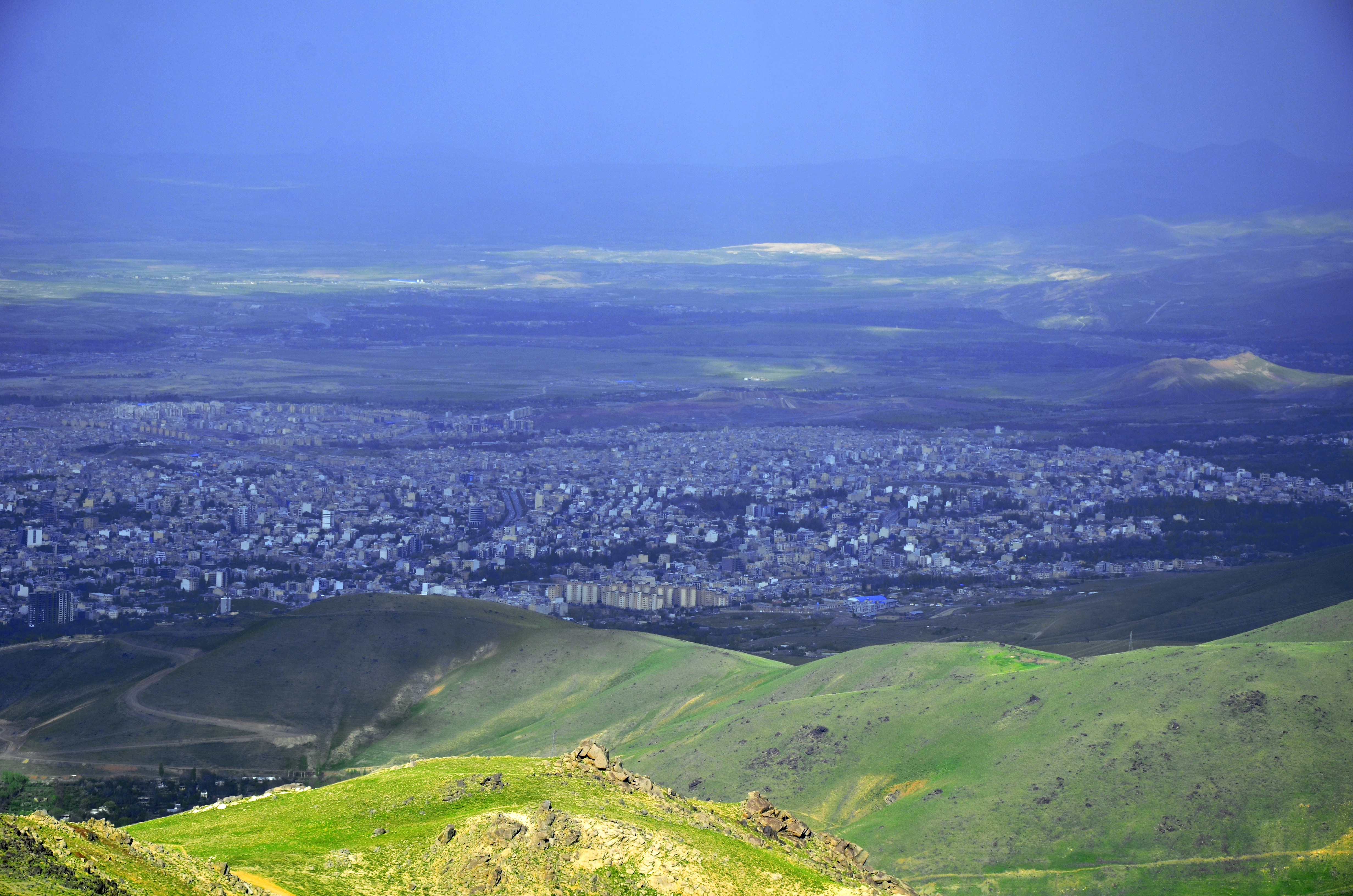 Iran - Hamedan view from Alvand Mountain